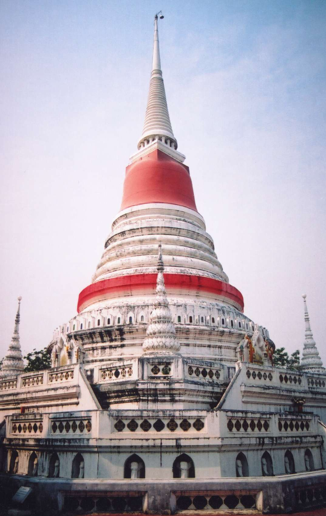 Phra Samut Chedi (or Phra Chedi Klang Nam), Samut Prakan province, Thailand.